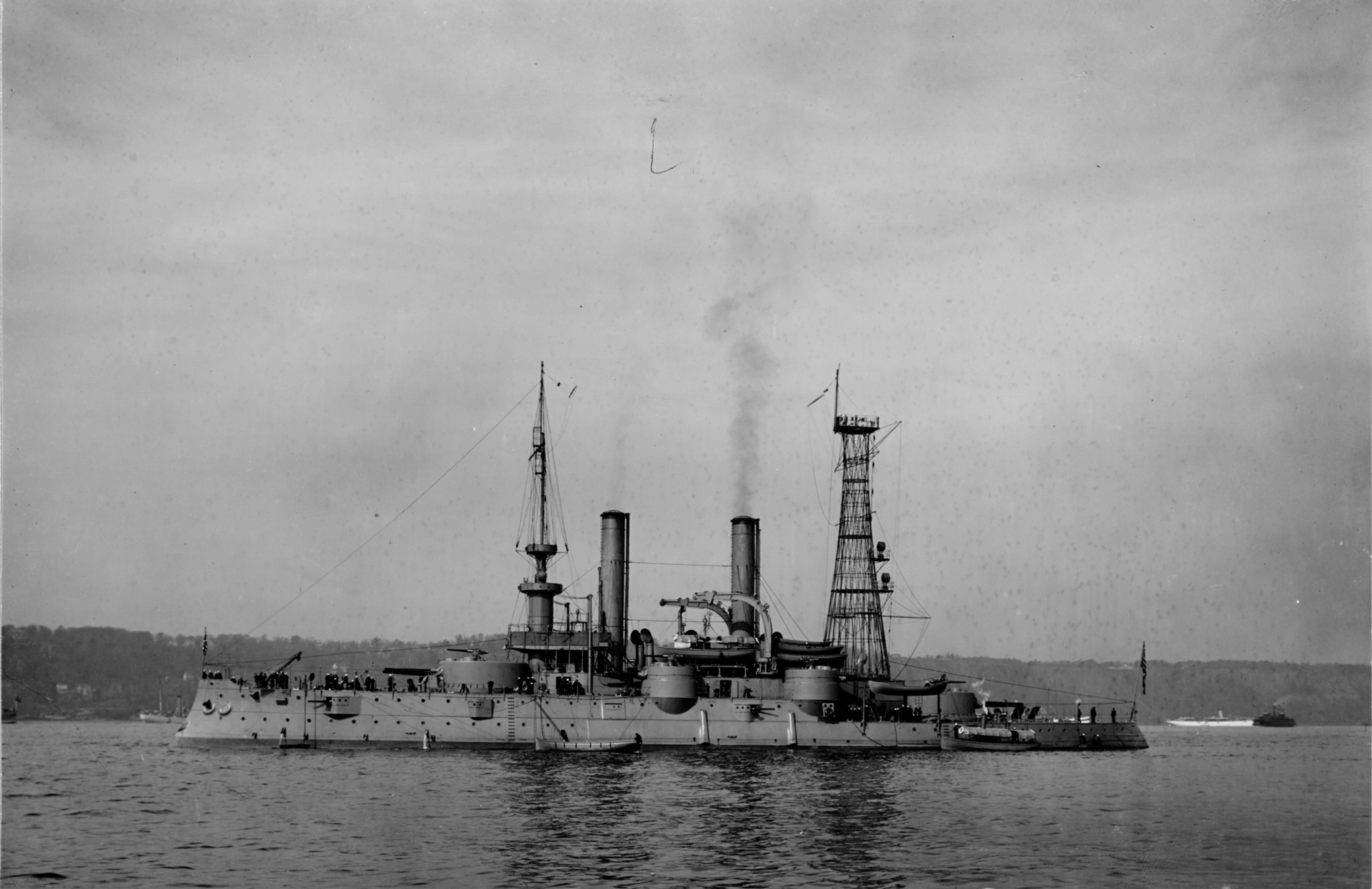 (Battleship # 4) Probably photographed in New York Harbor, circa 1911. U.S. Naval History and Heritage Command Photograph.